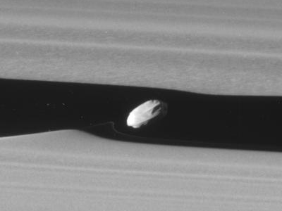 N00274737.jpg was taken on 2017-01-16 13:06 (UTC) and received on Earth 2017-01-18 00:41 (UTC). The camera was pointing toward Daphnis, and the image was taken using the CL1 and GRN filters. This image has not been validated or calibrated. A validated/calibrated image will be archived with the NASA Planetary Data System. (Wikimedia version cropped from original raw image.) Source URLs